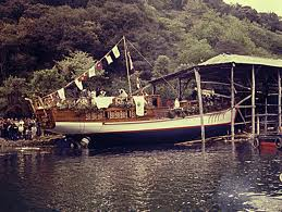 Launching of the Schooner ATYLA in 1984 (By then under the name Itxaso-Petronor)